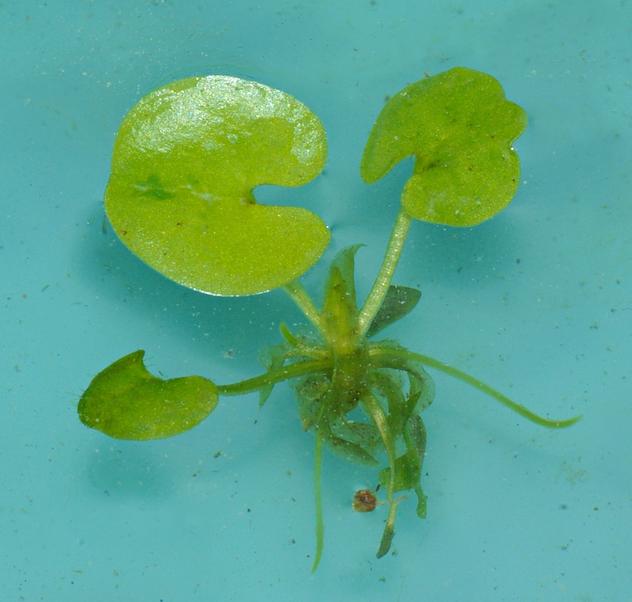 A "baby plant" of Hydrocharis morsus-ranae, just burst open out of a turion in spring-time. The biggest leaf has a diameter of about 8 mm.